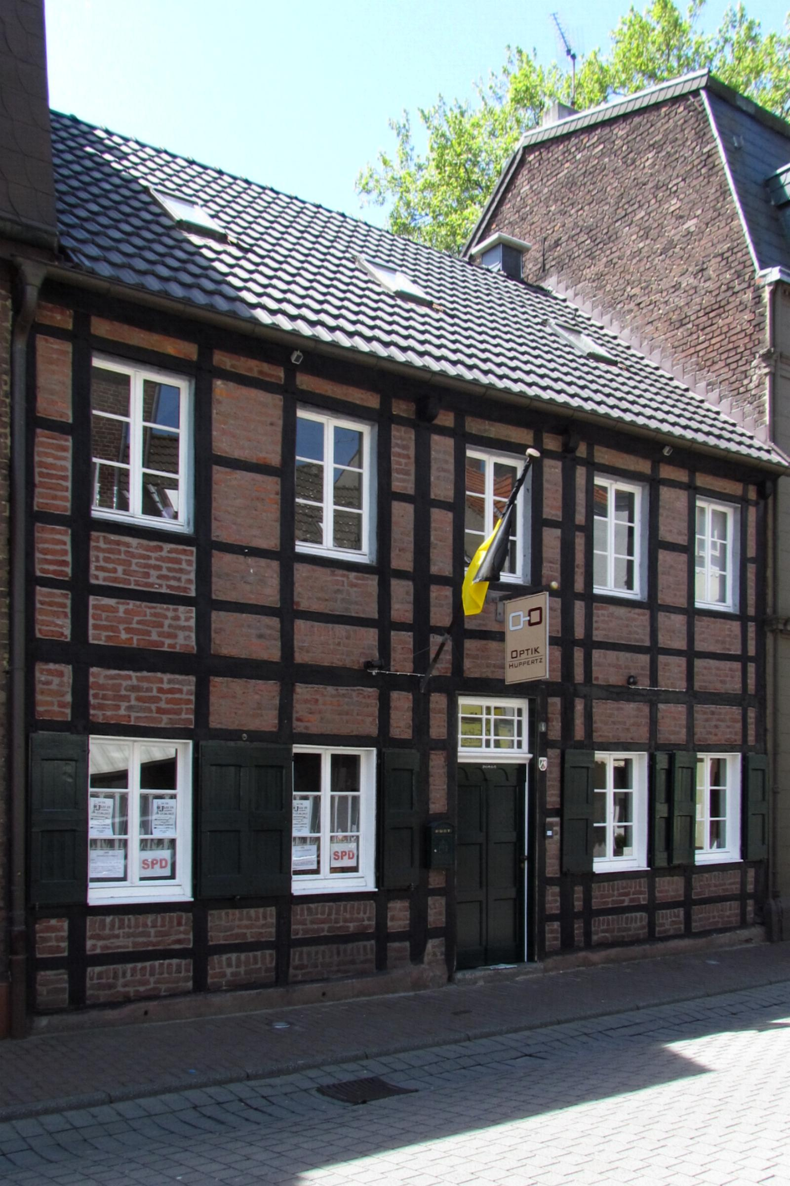 This is a photograph of an architectural monument.It is on the list of cultural monuments of Korschenbroich